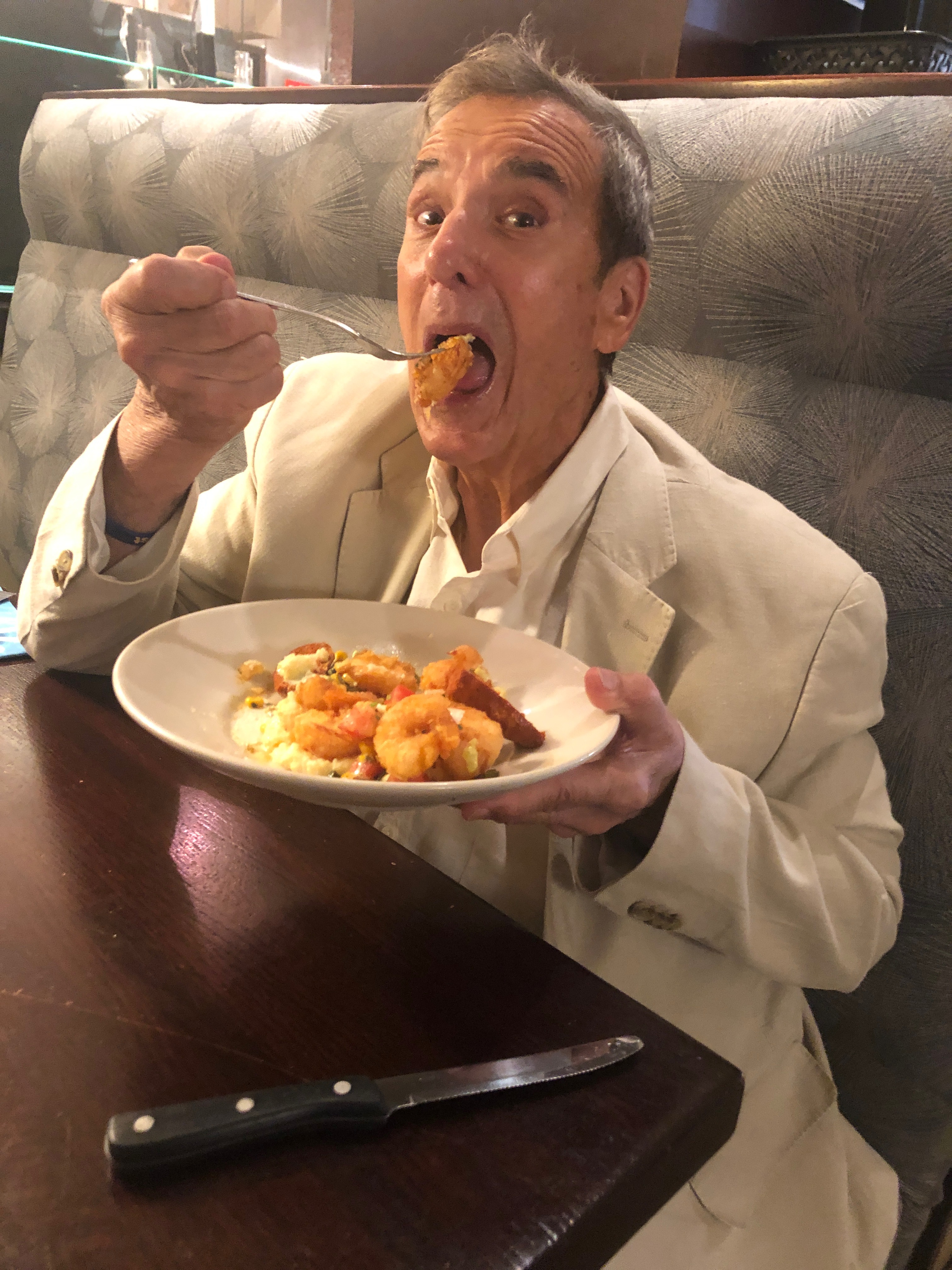 Image of Joey Reynolds for